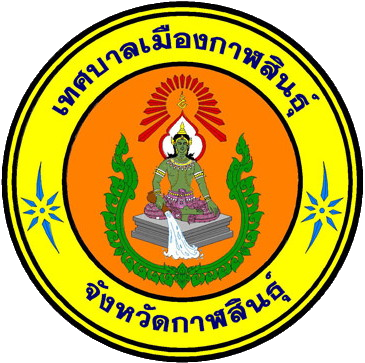 Seal of Kalasin Town